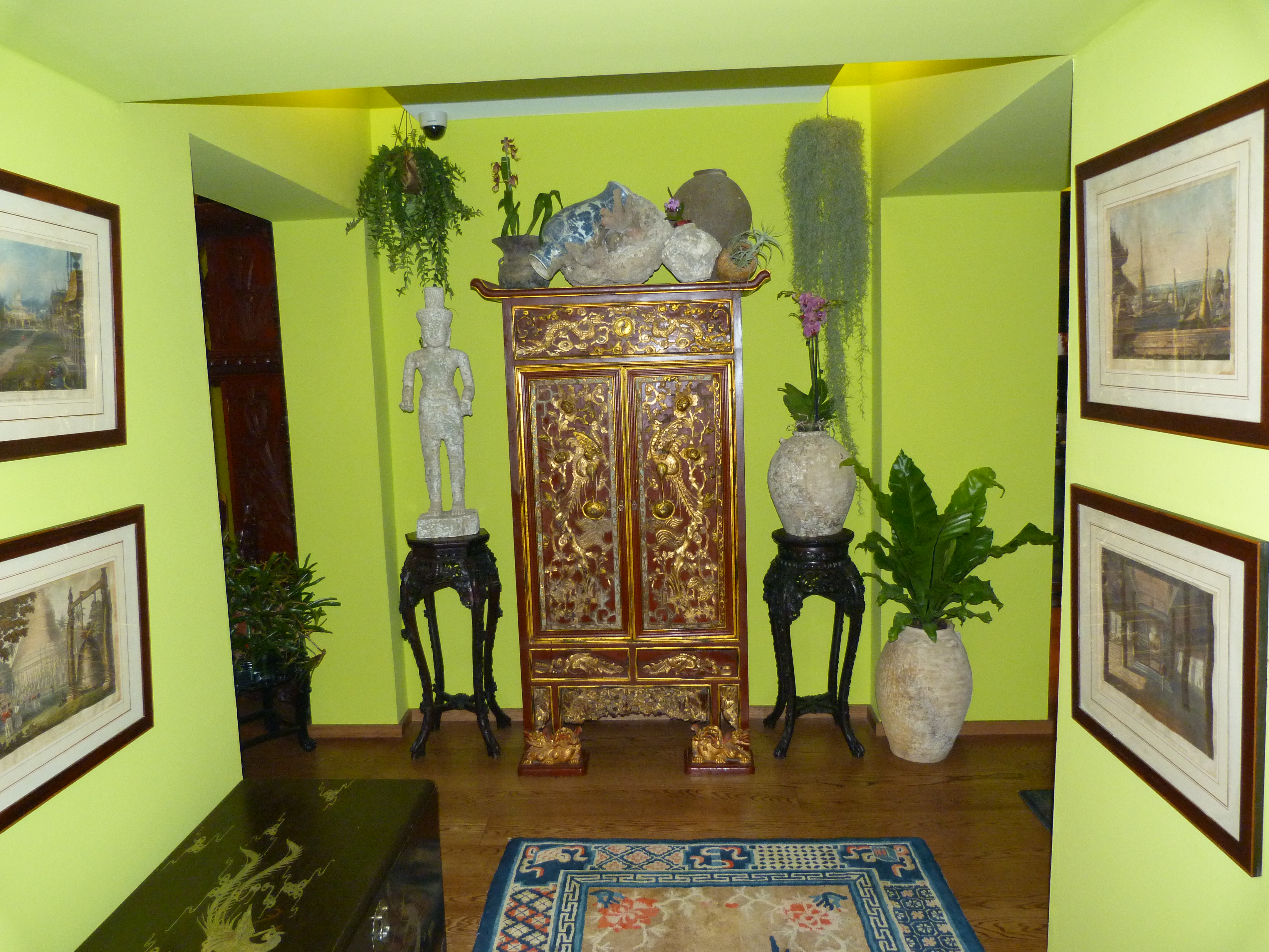 Live on the 17th of September, 2011. This day Zelnik István Southeastern-Asian Gold Museum was opened to the public. Zelnik, collector of asian relics have a collection of 50-60000 pieces. ©© Published under Creative Commons in the Metapolisz DVD line (from Metapolisz CD ISBN 963-229-987-6 to Metapolisz 260 DVD ISBN 978-615-5011-14-6 and from that on without an ISBN number)